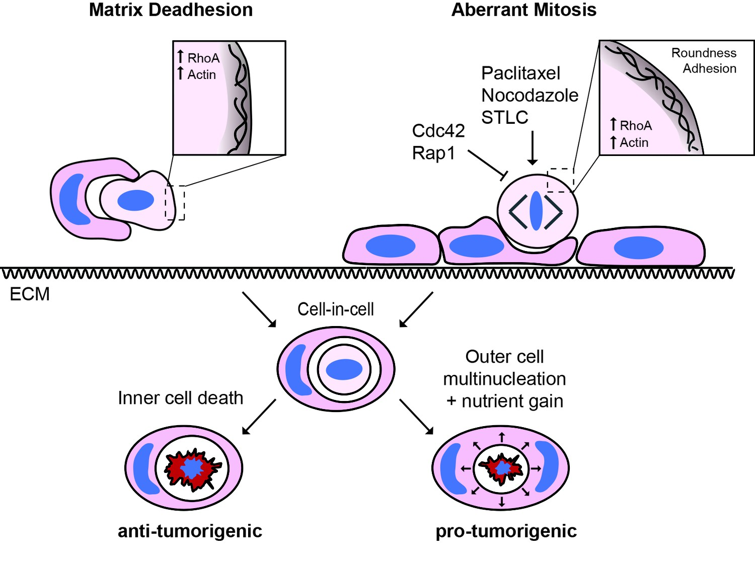 entosis